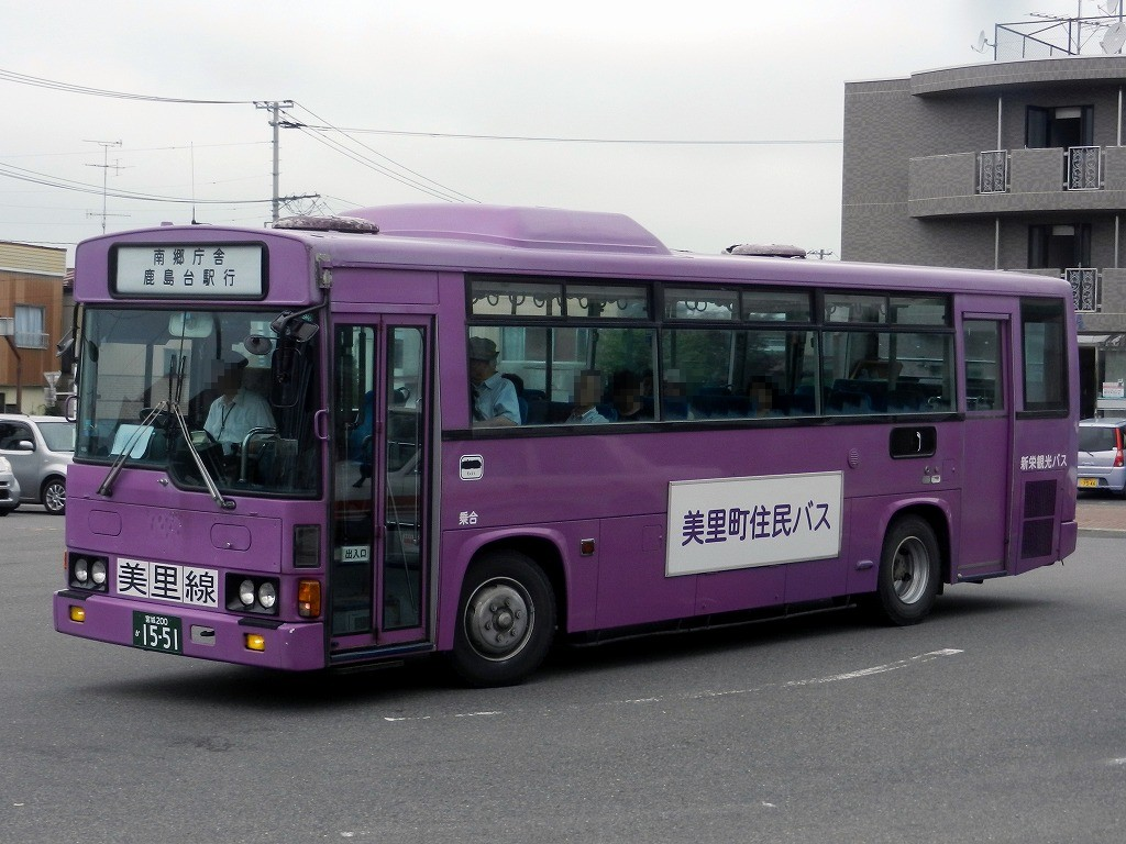 Misato town (Miyagi pref.)bus (Shin-ei sightseeing bus) Hino Rainbow (U-RJ3HJAA)